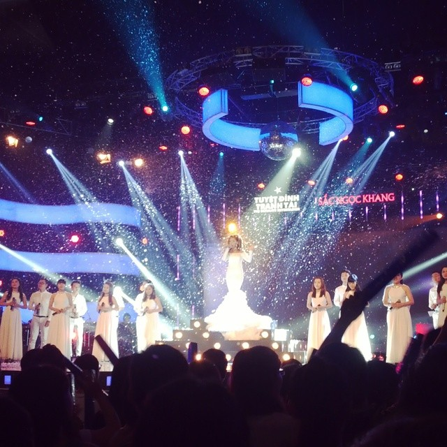 Phương Vy perfoming at Tuyệt đỉnh Tranh Tài.